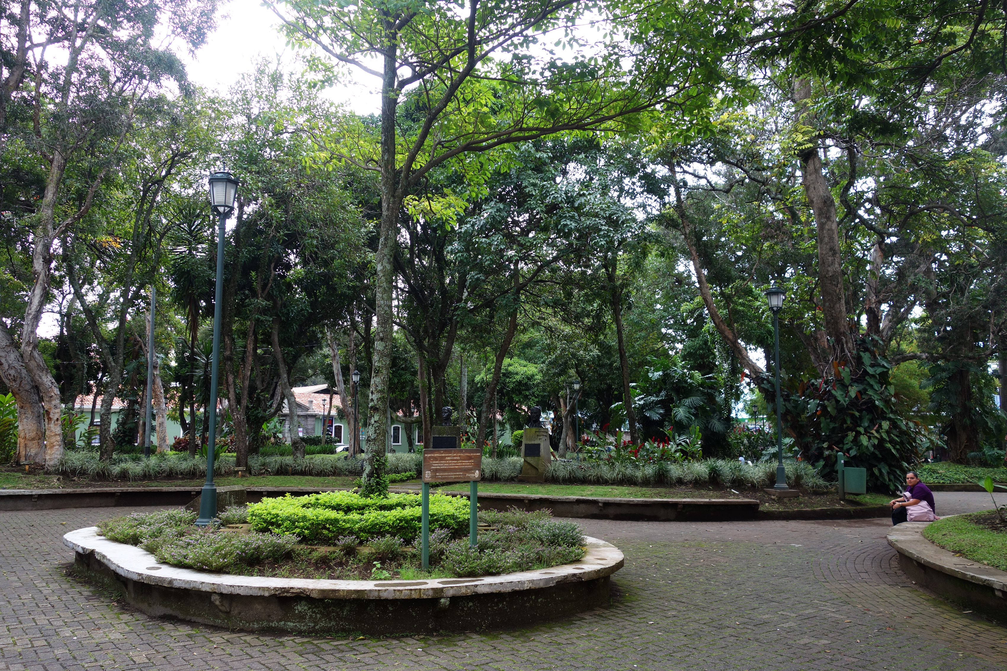 Parque España, San José, Costa Rica